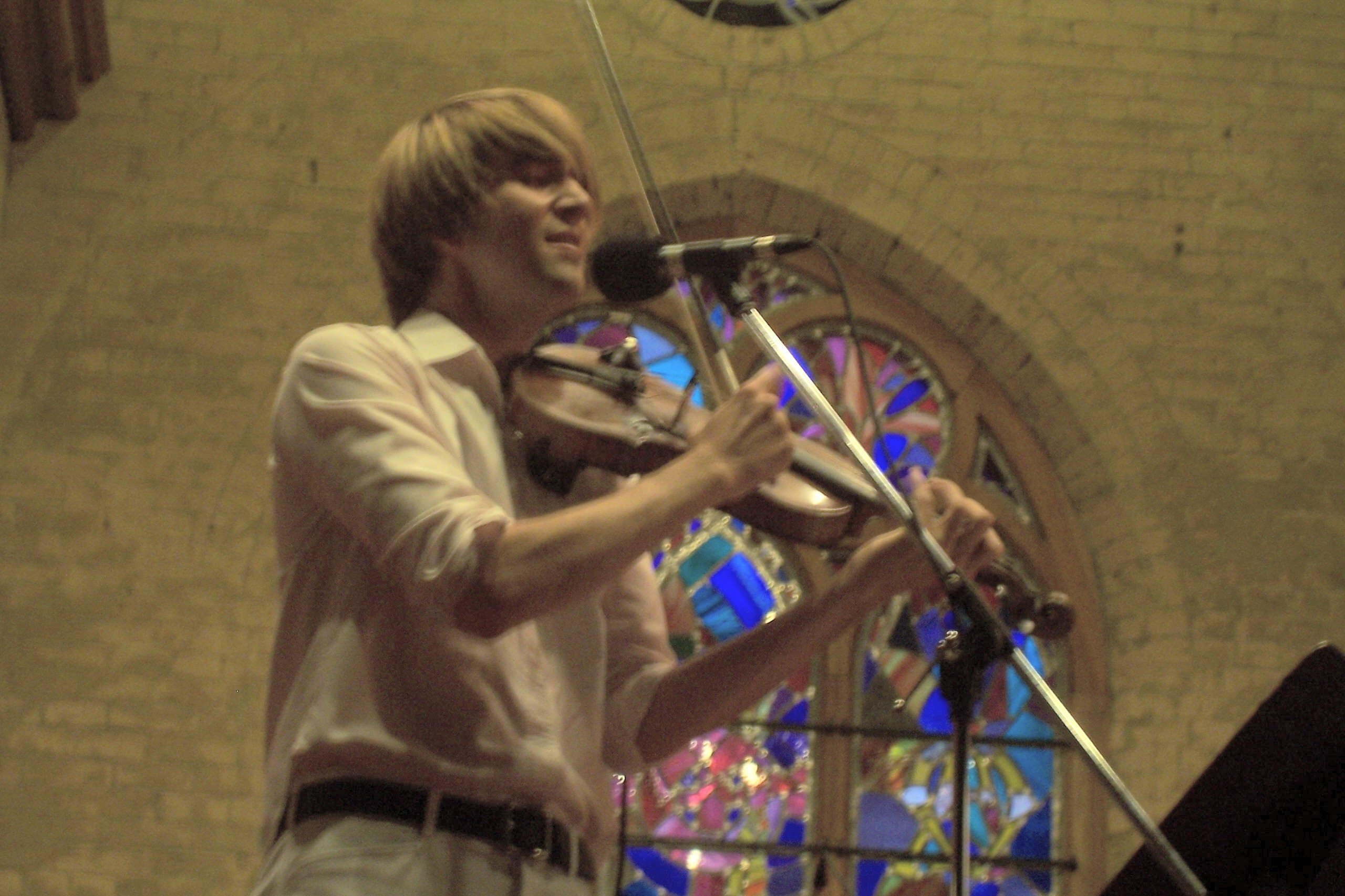 Owen Pallett of Final Fantasy, music gallery June 25 2005. The church has pretty stained glass.Final Fantasy